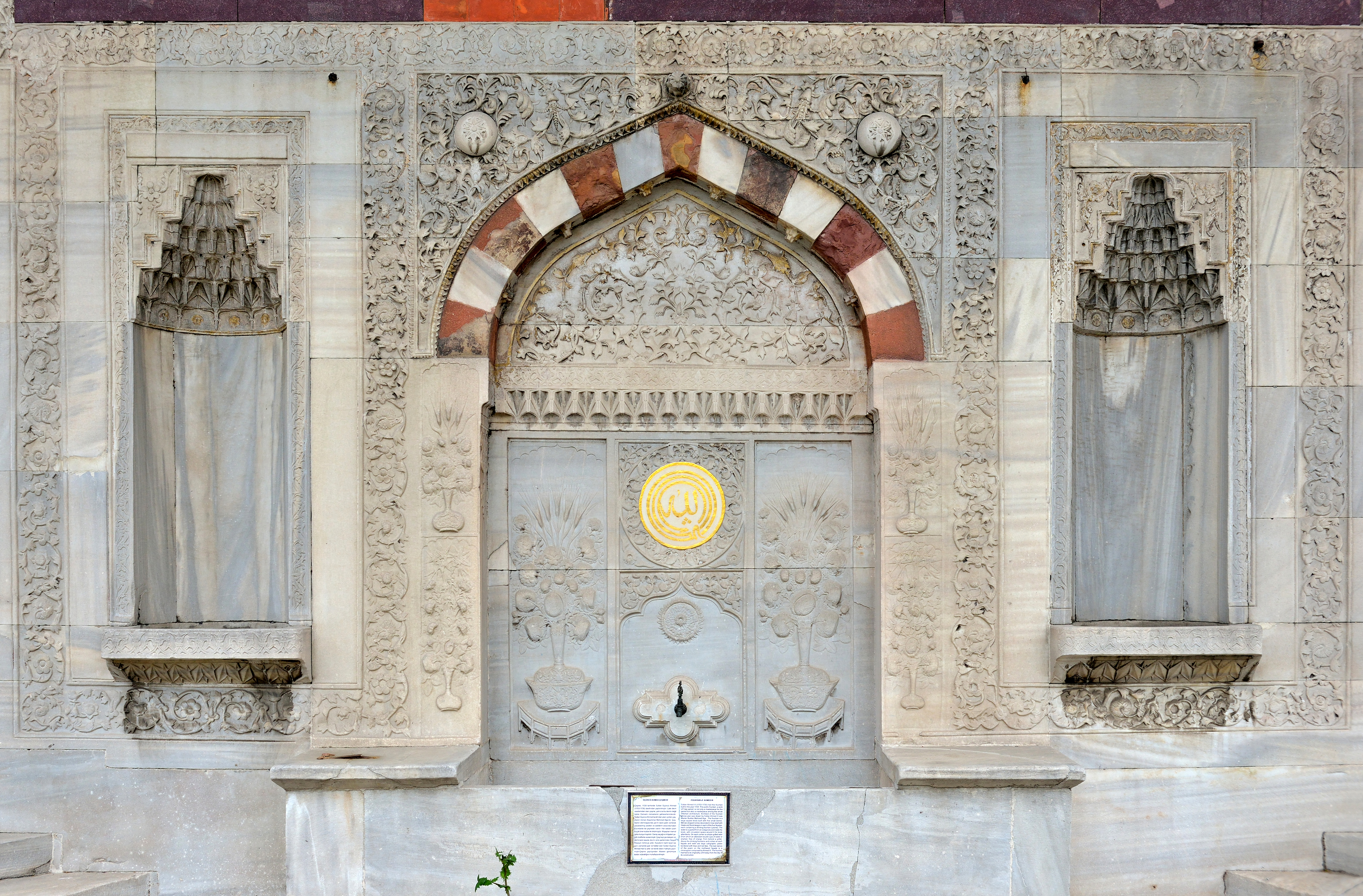 Fountain of Ahmed III at the Topkapı Palace|Topkapı Palace in Istanbul, Turkey.